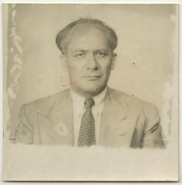 Description: Photograph 6 (Box 1, Folder 15) Creator/Photographer: Raphael Lemkin, 1900-1959 Medium: Black and white photographic print Date: undated Persistent URL: Collection: Raphael Lemkin collection, undated, 1763, 1915-1919, [c.1921], 1933, 1941-1952, 1983, 1989 Repository: American Jewish Historical Society Call Number: P-154 Rights Information: No known copyright restrictions; may be subject to third party rights. For more copyright information, click here. See more information about this image and others at CJH Digital Collections. To inquire about rights and permissions, or if you have a question regarding the collection to which the image belongs, please contact the Reference Department of the American Jewish Historical Society by email. Digital images created by the Gruss Lipper Digital Laboratory at the Center for Jewish History